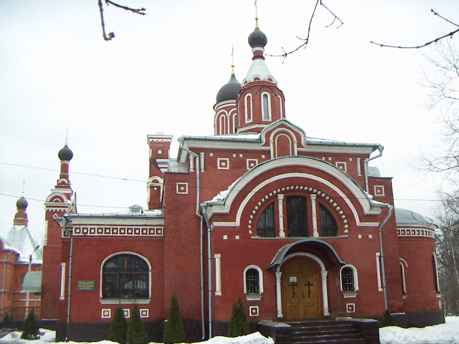 The Trinity Church